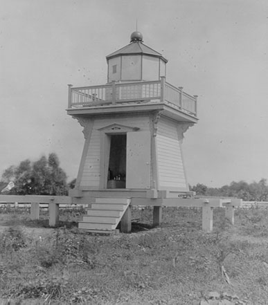 Haig Point Front Range Light, Daufuskie Island (Beaufort County, South Carolina) This image or file is a work of a United States Coast Guard service personnel or employee, taken or made as part of that person's official duties. As a work of the U.S. federal government, the image or file is in the public domain (17 U.S.C. § 101 and § 105, USCG main privacy policy and specific privacy policy for its imagery server).